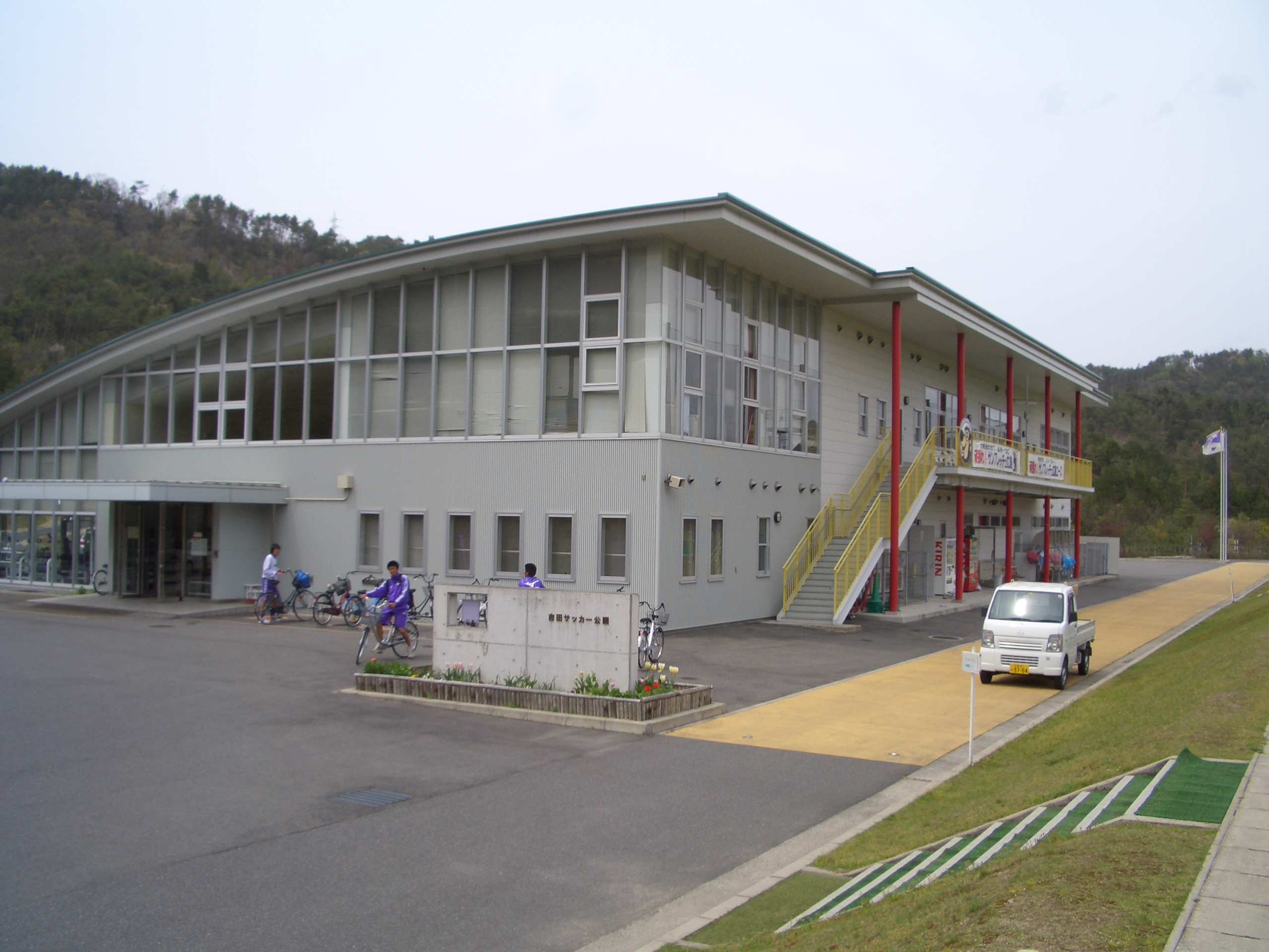 Yoshida Soccer Park, Akitakata, Hiroshima prefecture, Japan